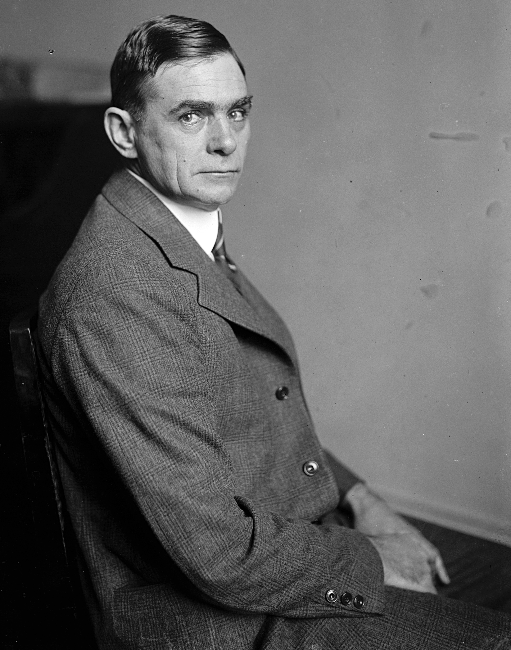 Henry L. Jost, US Representative from Missouri